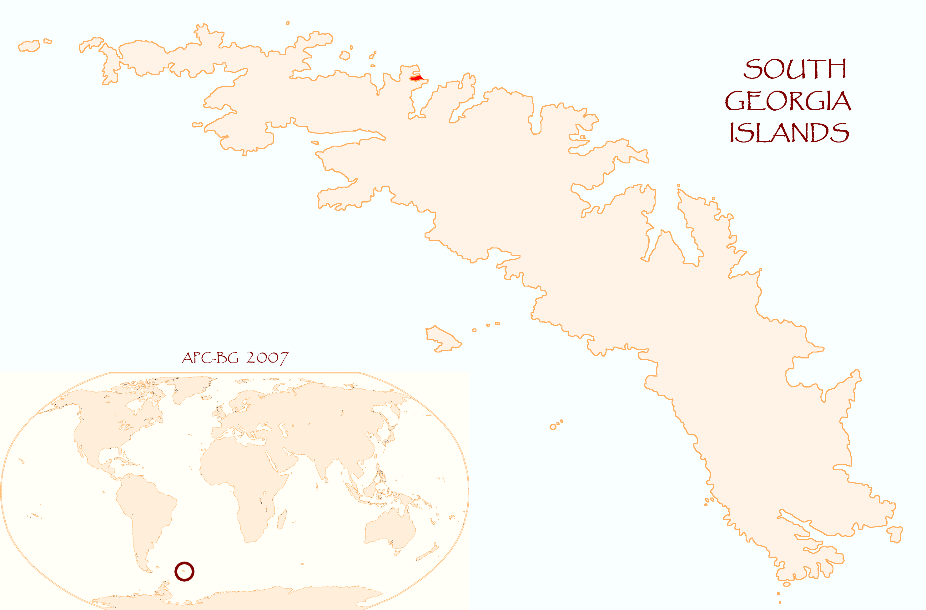 Location map for Prince Olav Harbour, South Georgia published by the author Apcbg.